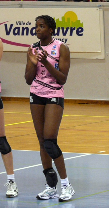 French volleyball player Leslie Turiaf